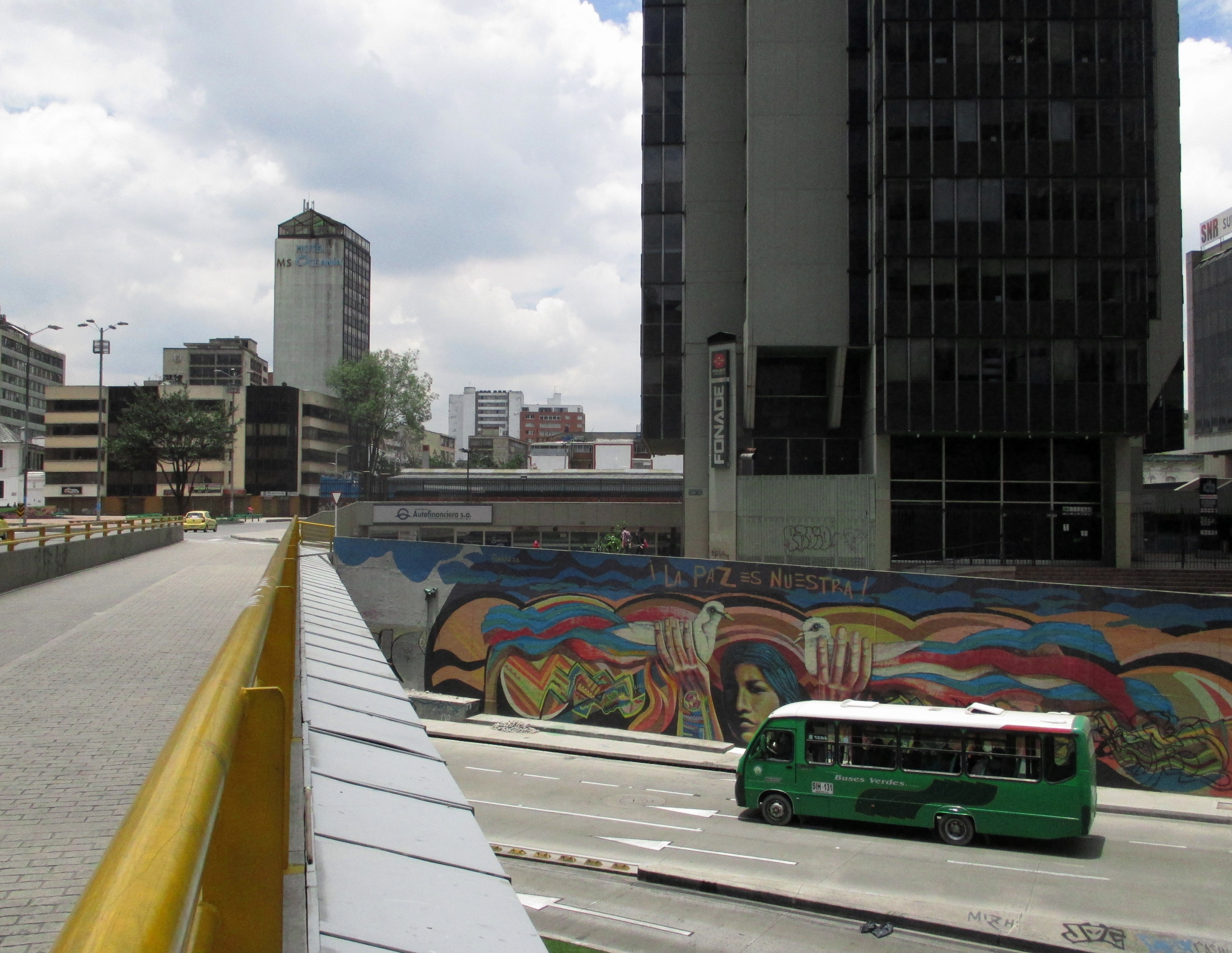 Bogotá